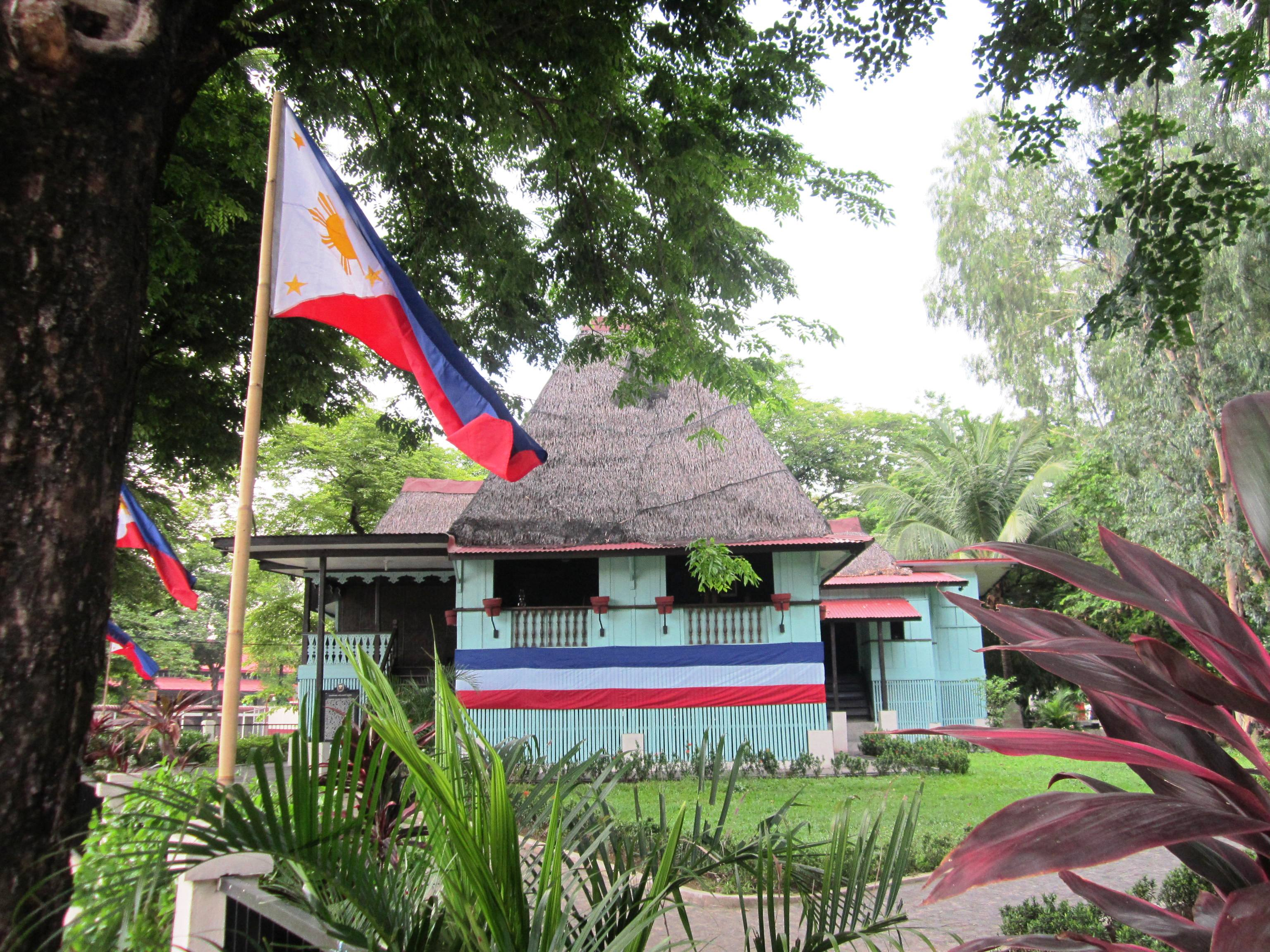 The Mabini Shrine is located inside the Polytechnic University of the Philippines main campus in Sta. Mesa, Manila.